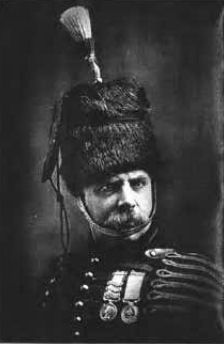 William Henry Pennington (1833-1923) in 1890 wearing the uniform of the 11th Hussars and his Crimean War medals